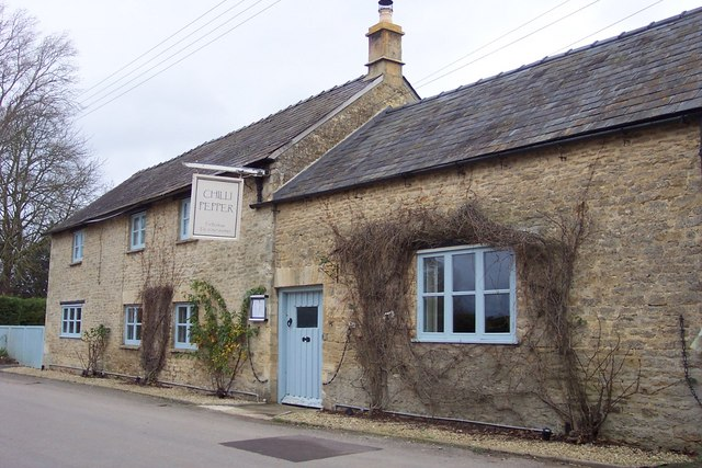 The Chilli Pepper This old village inn is now a trendy restaurant.